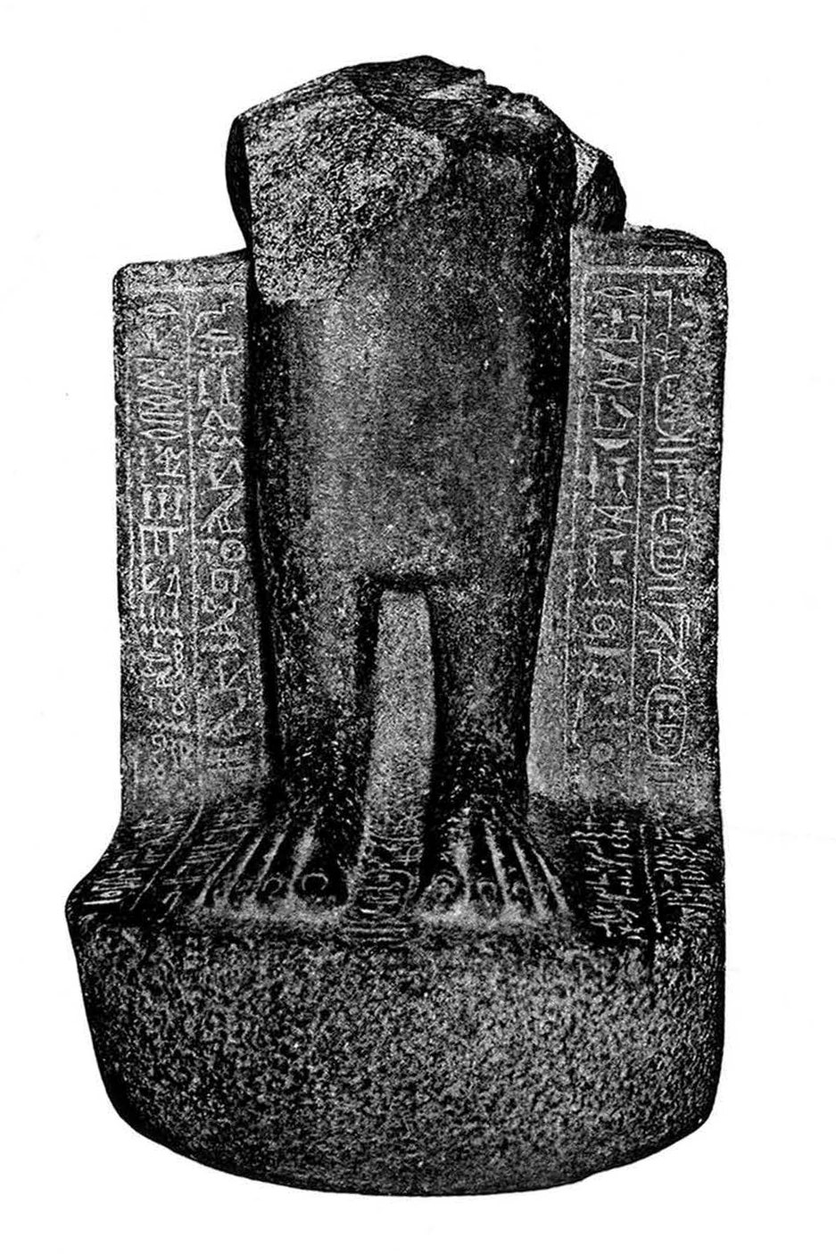 Sitting statue of the Divine Adoratrice of Amun, Amenardis I, daughter of pharaoh Kashta and queen Pebatjma. The statue was dedicated to Amenardis I by Harsiese. The inscription mentions both her parents, as well as another Divine Adoratrice, Shepenupet (II?). Granite, H 0,45m, 25th Dynasty, Third Intermediate Period, found in Karnak, now in Cairo Museum (CG 42198).